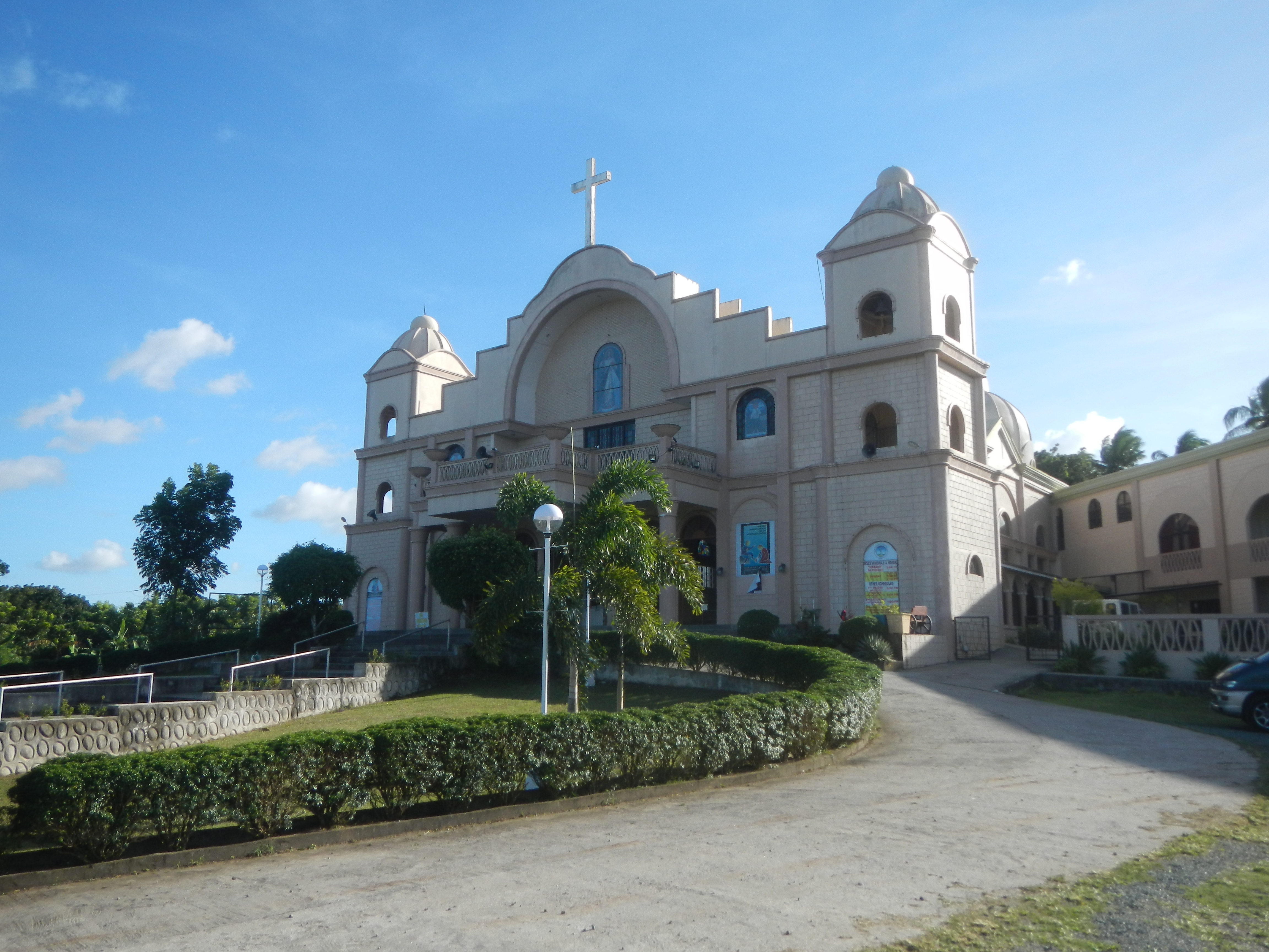 Divine Mercy Parish Church (Biluso, Silang, Cavite) Dedicated September 13, 2018 Groundbreaking June 21, 2010 Erection October 5, 2016 from Silang Bypass Road (Silang Diversion Road), Aguinaldo Highway Aguinaldo Highway Aguinaldo Highway (Silang, Cavite) corner Governor's Drive Bypass Road (Silang, Cavite) Philippine highway network Barangays Biga 1 & Biga 2, Silang, Cavite 14°15'12"N 120°58'17"E San Vicente 1 & 2, Silang, Cavite 14°13'49"N 120°58'13"E Biluso, Silang, Cavite ] 14°14'12"N 120°57'19"E Silang, Cavite (Note: Judge Florentino Floro, the owner, to repeat, Donor Florentino Floro of all these photos hereby donate gratuitously, freely and unconditionally all these photos to and for Wikimedia Commons, exclusively, for public use of the public domain, and again without any condition whatsoever).